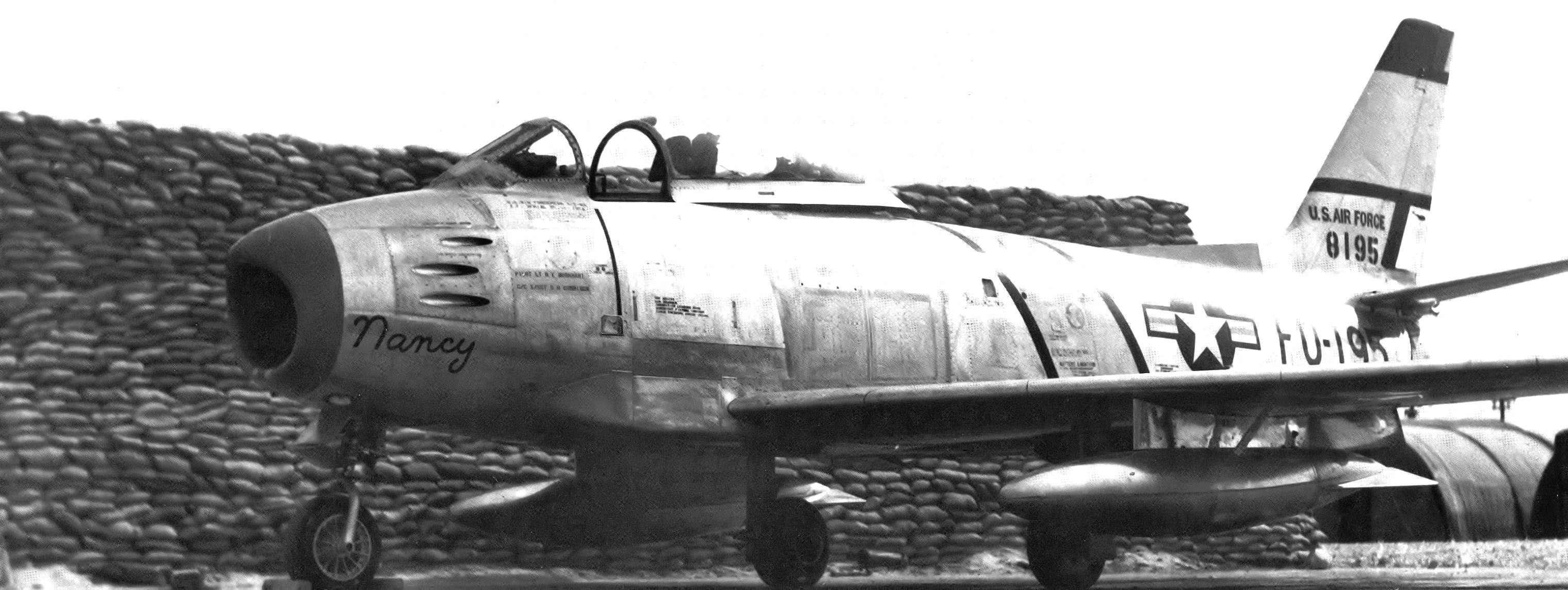 15th Tactical Reconnaissance Squadron- North American RF-86A-5-NA Sabre - 48-195 at K-14 Airfield, South Korea, 1952